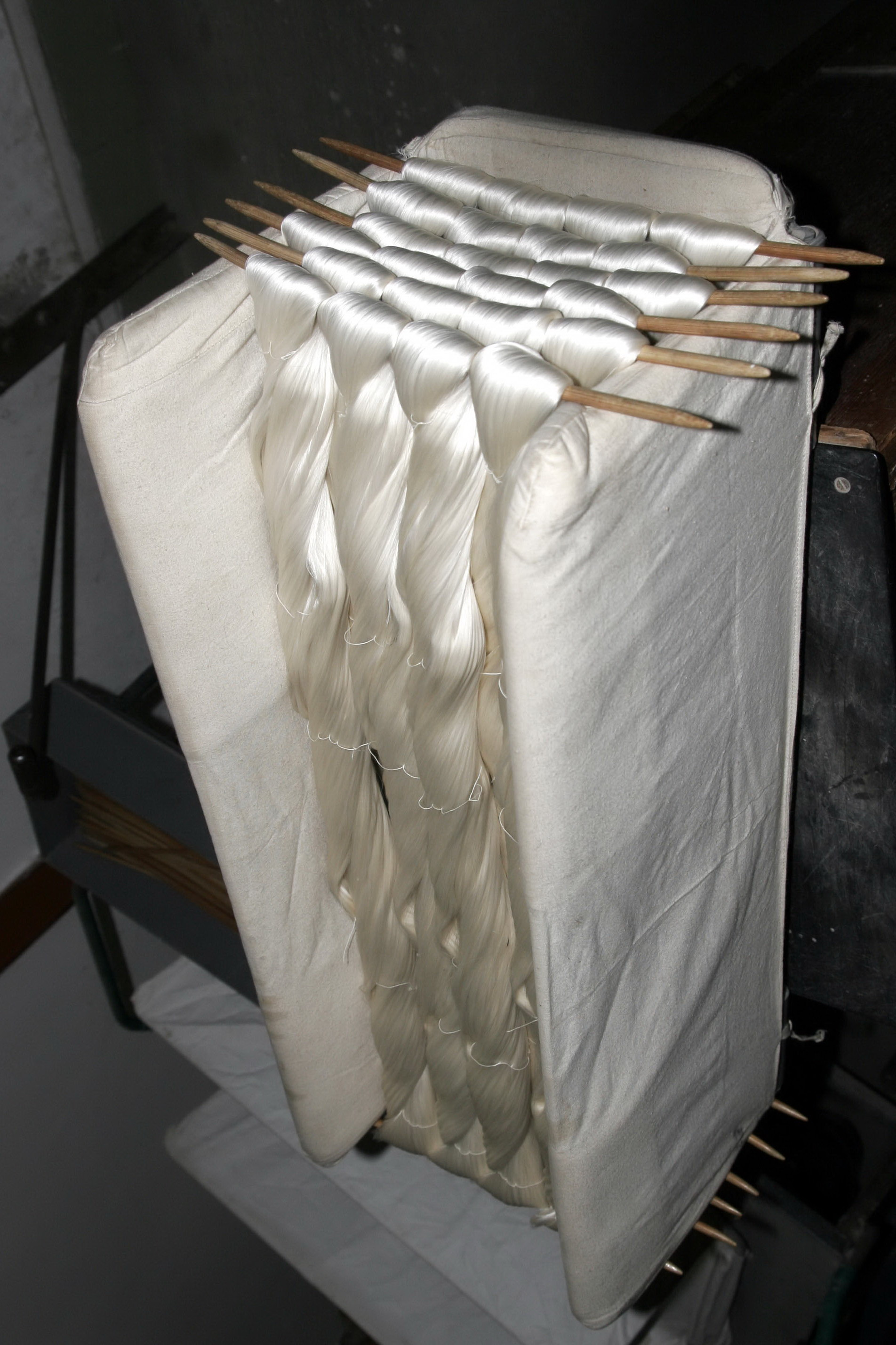 Raw silk in the Suzhou No.1 Silk Mill in Suzhou (Jiangsu), China